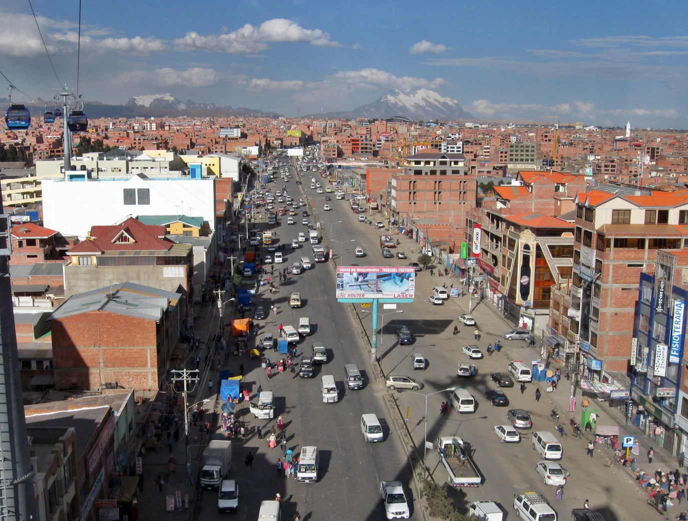 El Alto, Bolivia from cable car.